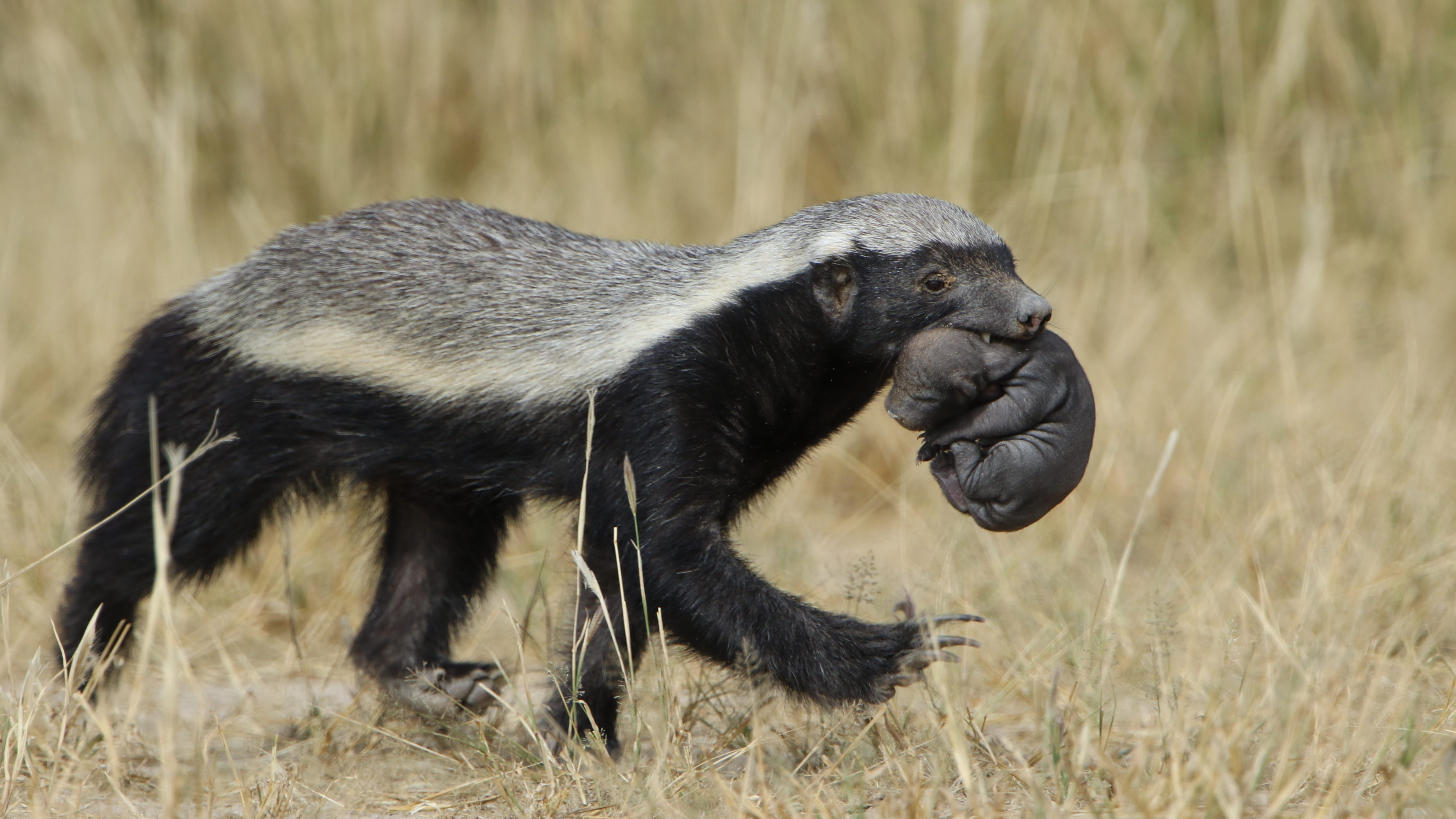 Honey badger, Mellivora capensis, carrying young pup in her mouth at Kgalagadi Transfrontier Park, Northern Cape, South Africa